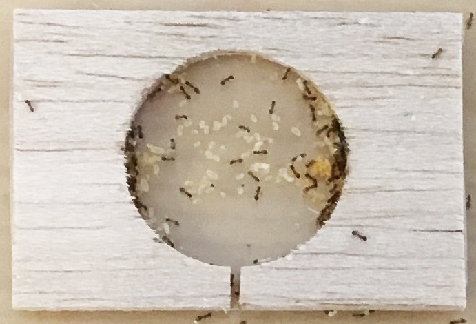 Common laboratory nest setting for Temnothorax rugatulus. Two glass slides sandwich a balsa wood cutout. The ants nest within the cutout and can exit through a small slit (seen at the bottom). Here, the top glass slide has been removed to access the colony. The off-white splotches are the brood. The queen can be seen on the right side against the wall of the cutout.